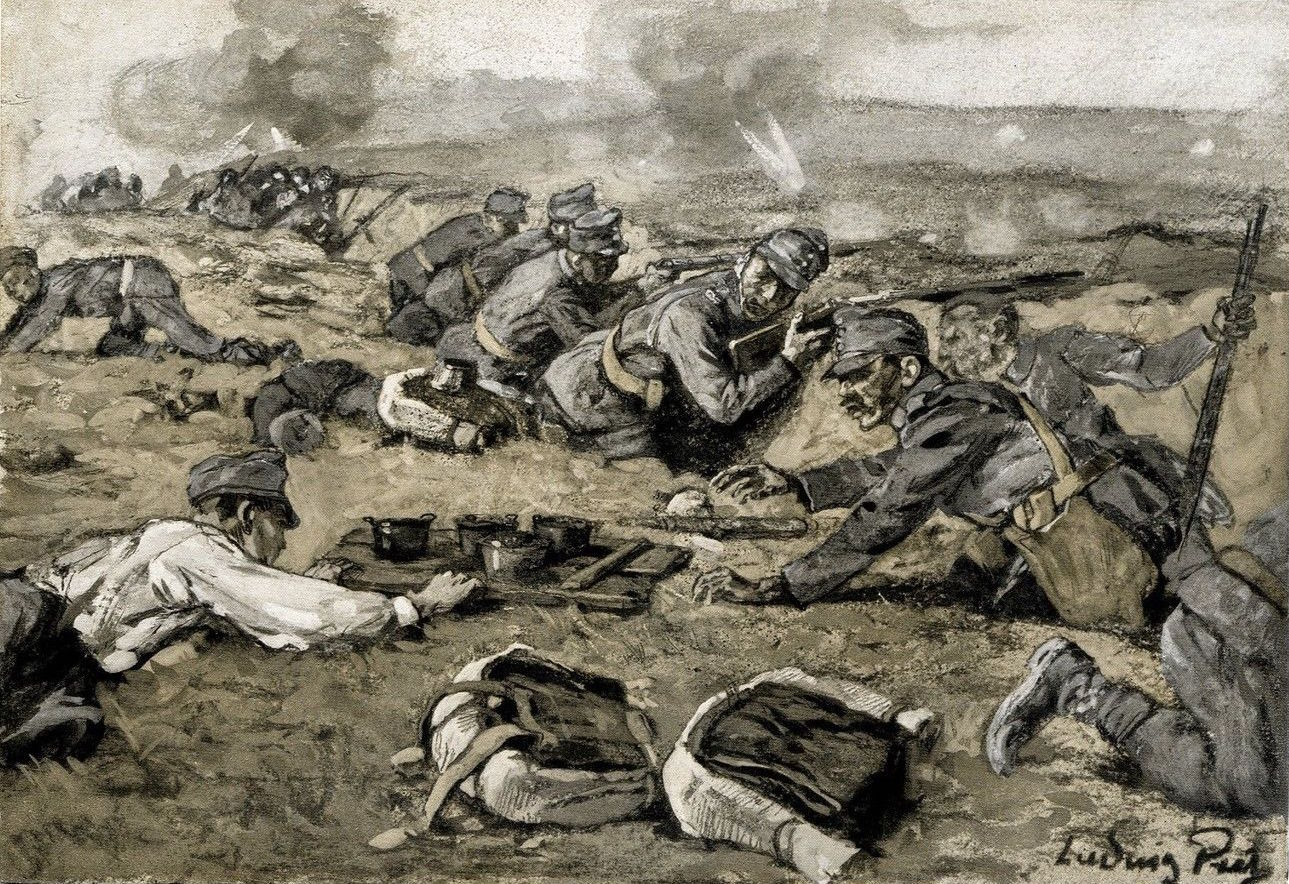 Mittag im Schützengraben. Painting by Ludwig Putz.